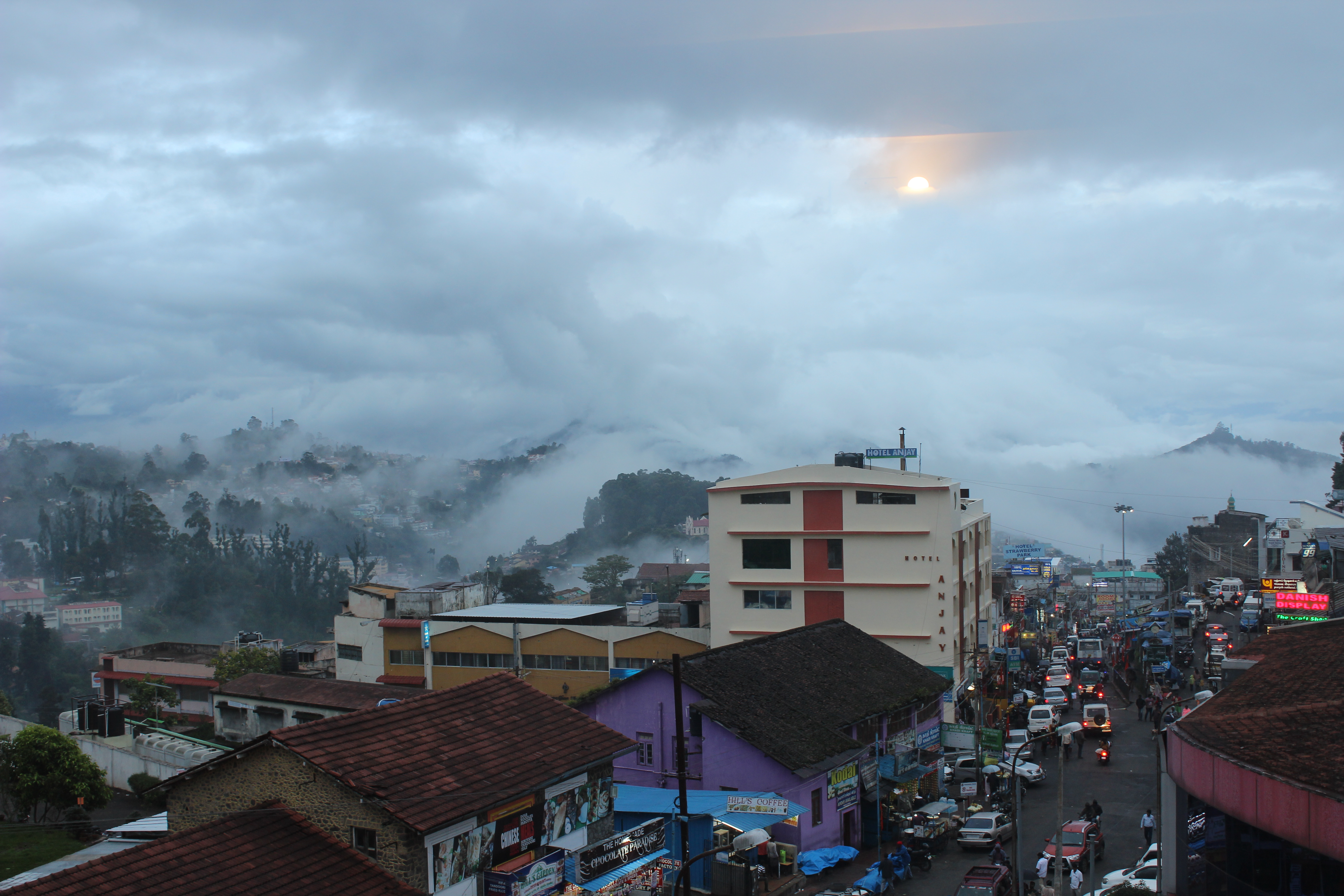 Kodaikanal Main Town with Mist Covered.